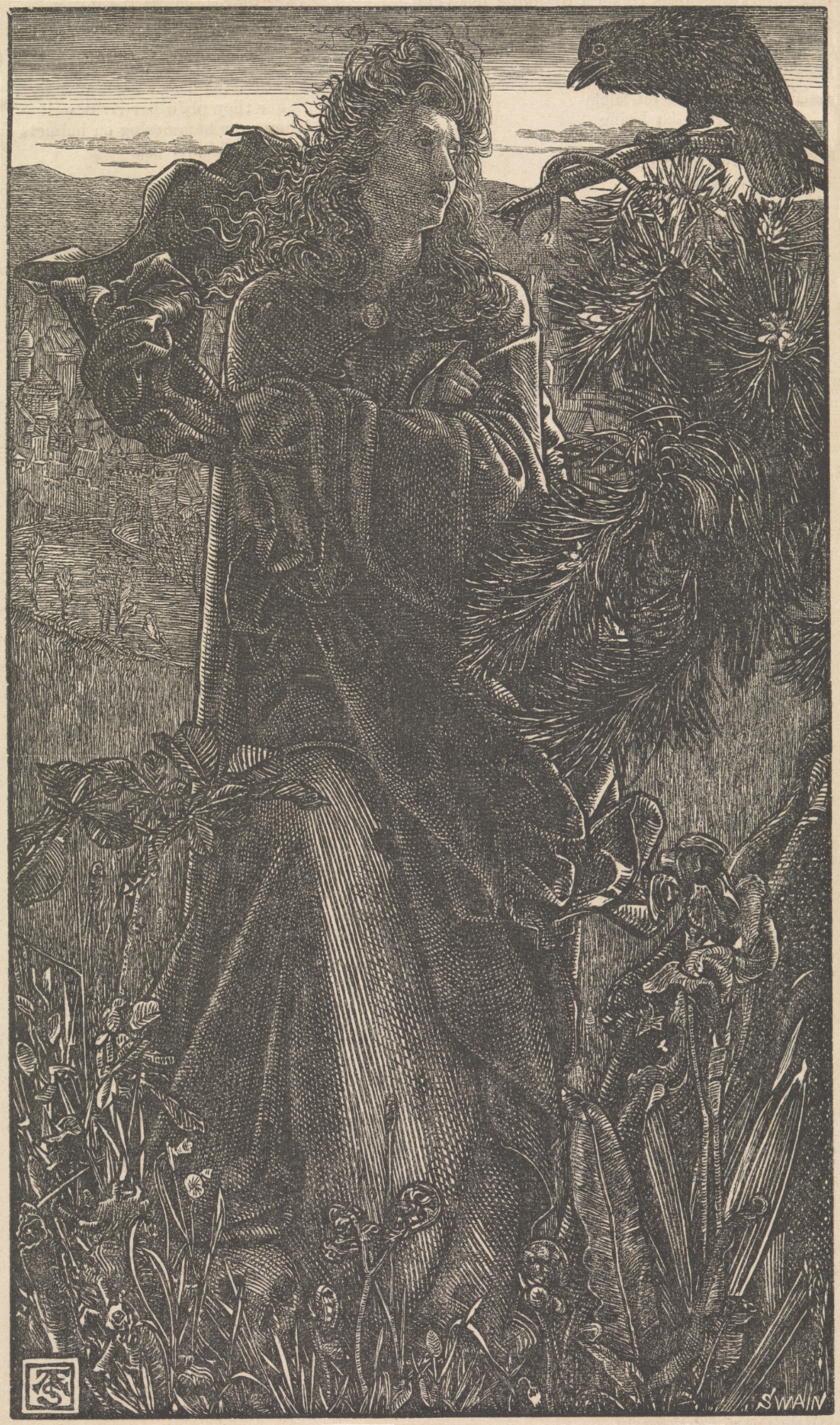 A valkyrie and a raven having a conversation. Illustration to Hrafnsmál or Haraldskvæði by Þórbjörn hornklofi, translated as "Harald Harfagr" in the magazine Once a Week (Volume 7, page 154), woodcut engraved by Joseph Swain from art by Frederick Sandys.